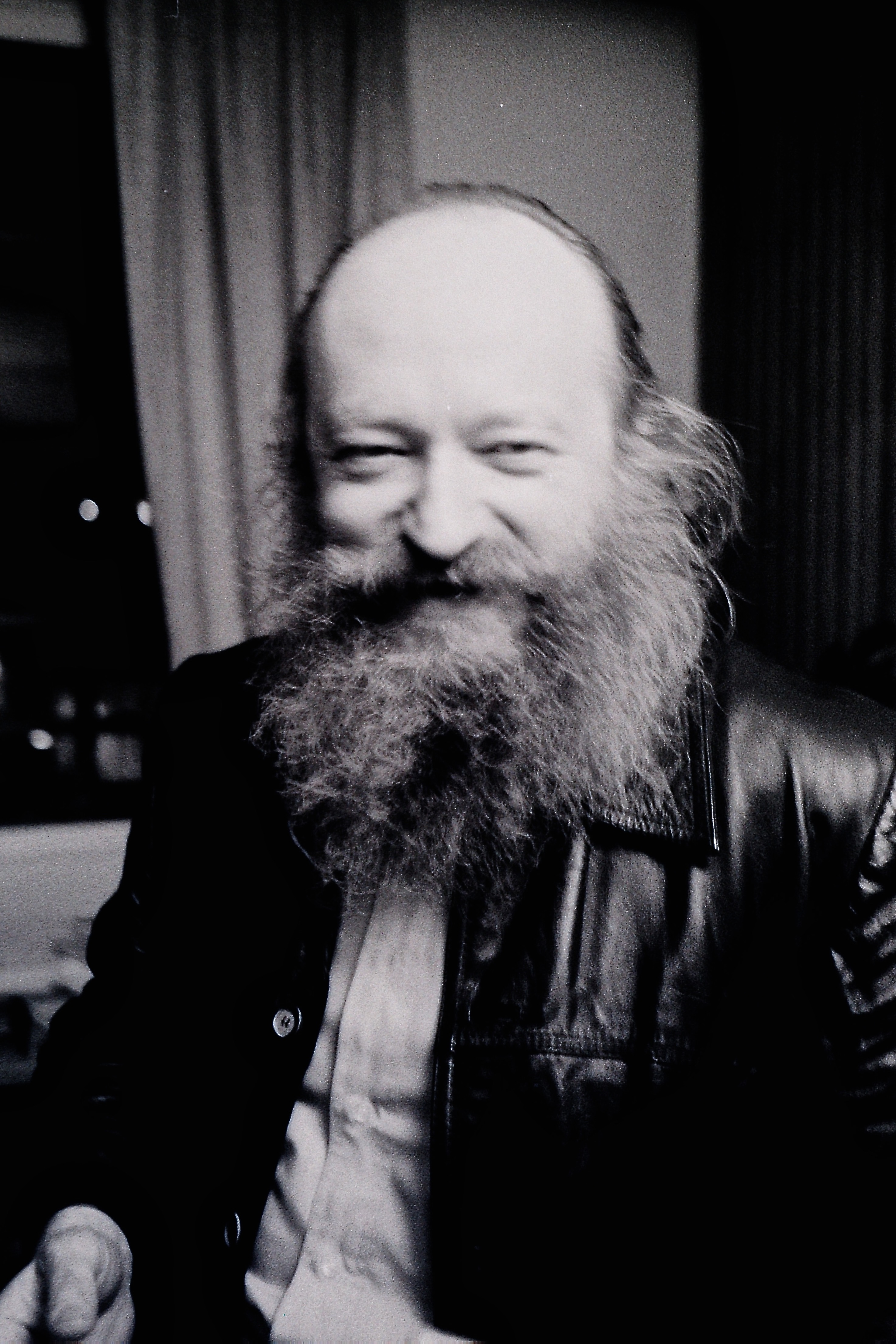 Leo Apostel, Gent 1980